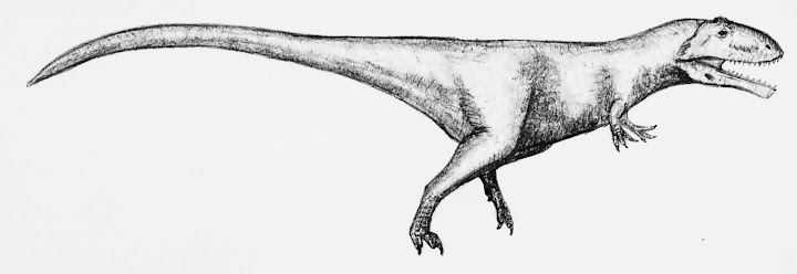 Life reconstruction fo the giant theropod mapusaurus rosae based on this